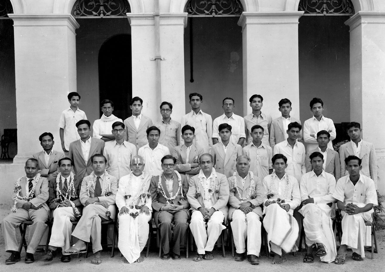 T. V. Venkatachala Sastry during his student years at "Hayagiva Mandiram", Mysore where he stayed for some time. Chief Guest S. Srikanta Sastri (at the centre - sitting on chairs) was his teacher.